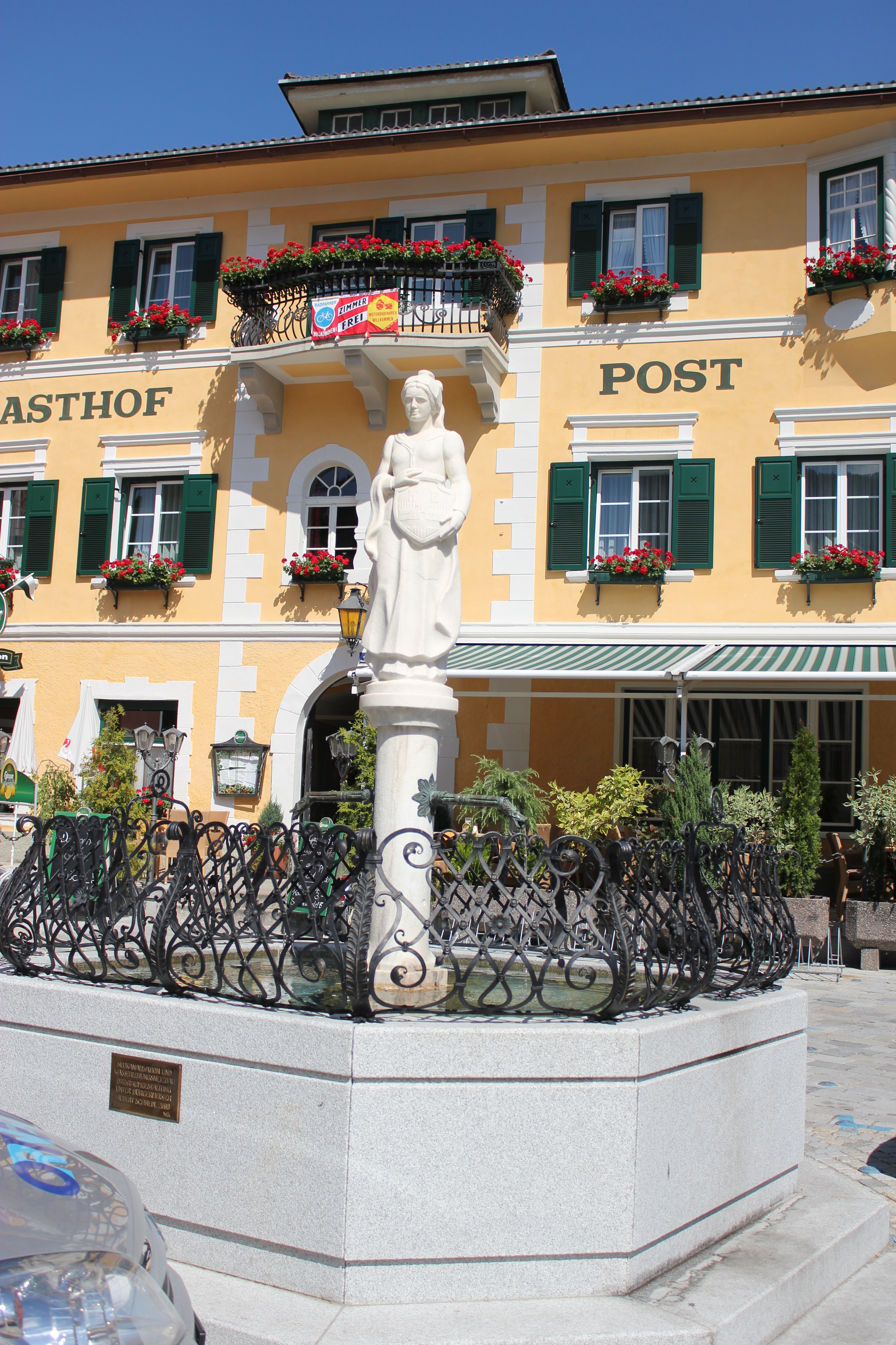 Marktplatz in Oberdrauburg - Fountain